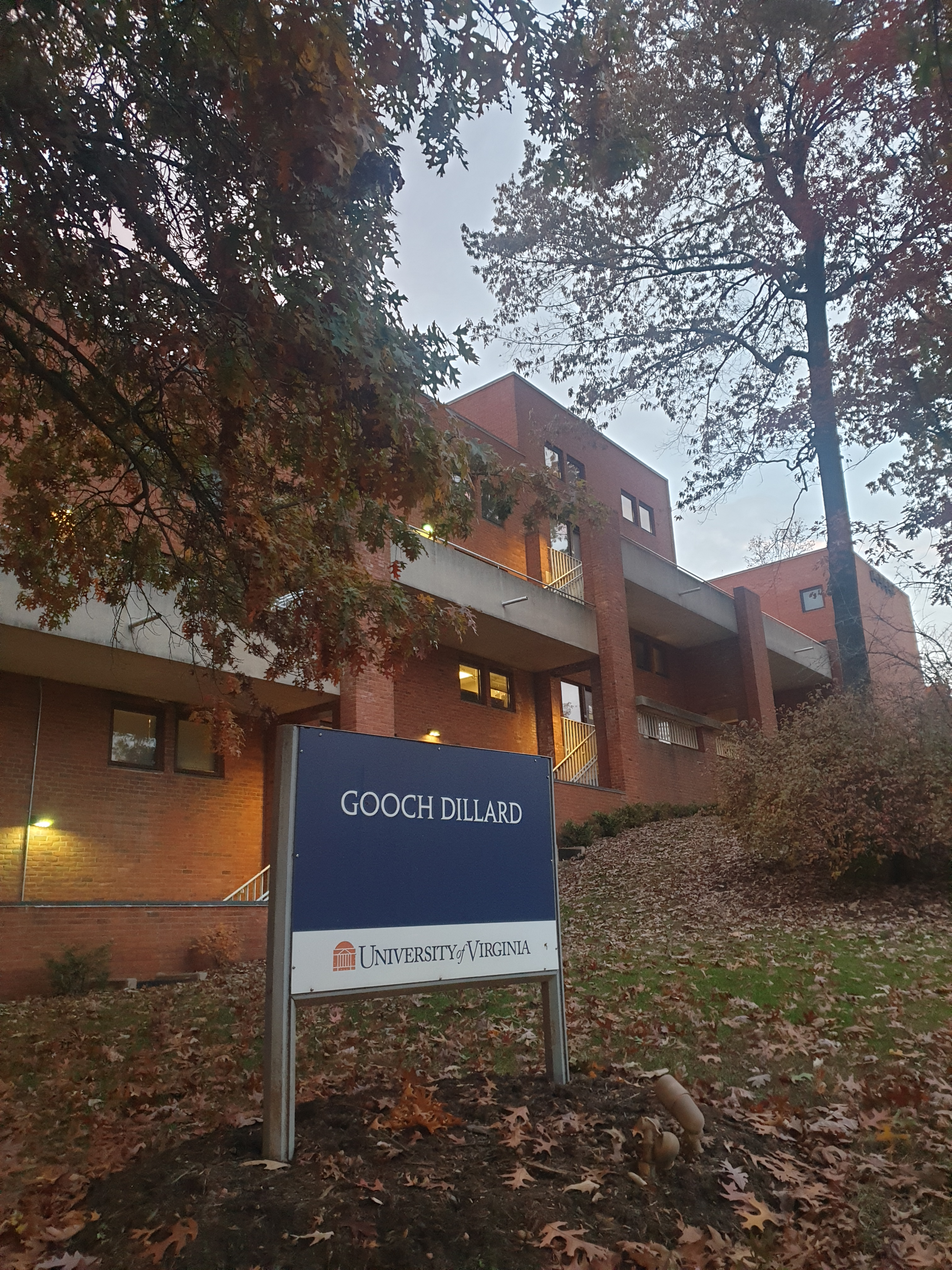 External view of Gooch Dillard and the sign at the front of the buildings